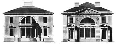 Example building from drawing album